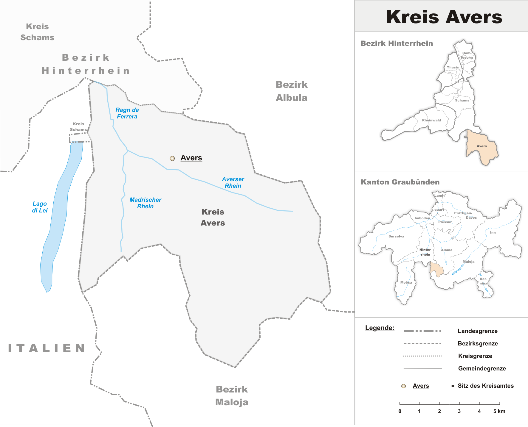 Municipalities in the circle of Avers